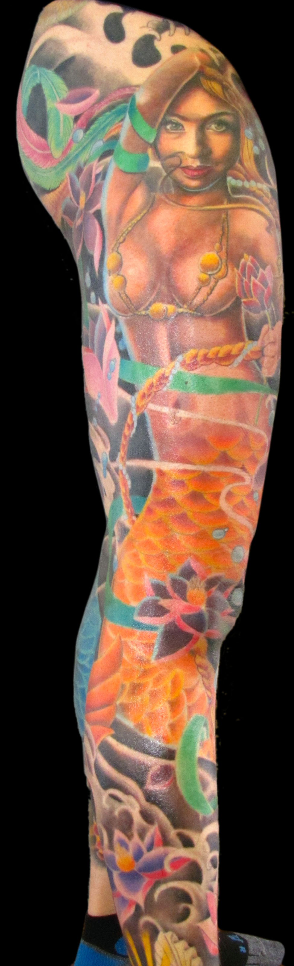 Right leg 'sleeve', tattooed by Patrick McFarlane, The Black Freighter Tattoo, Chester, Cheshire, UK. Design inspired by Luis Royo - The Serpents of the Moon; face of Anastasia Volochkova, prima ballerina, Moscow